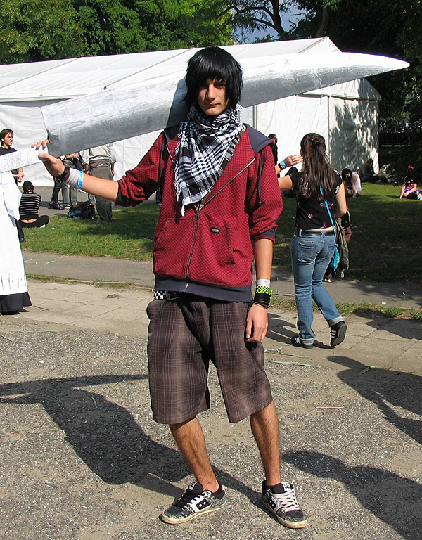 An emo kid on the animecon 2008 fall in Budapest.